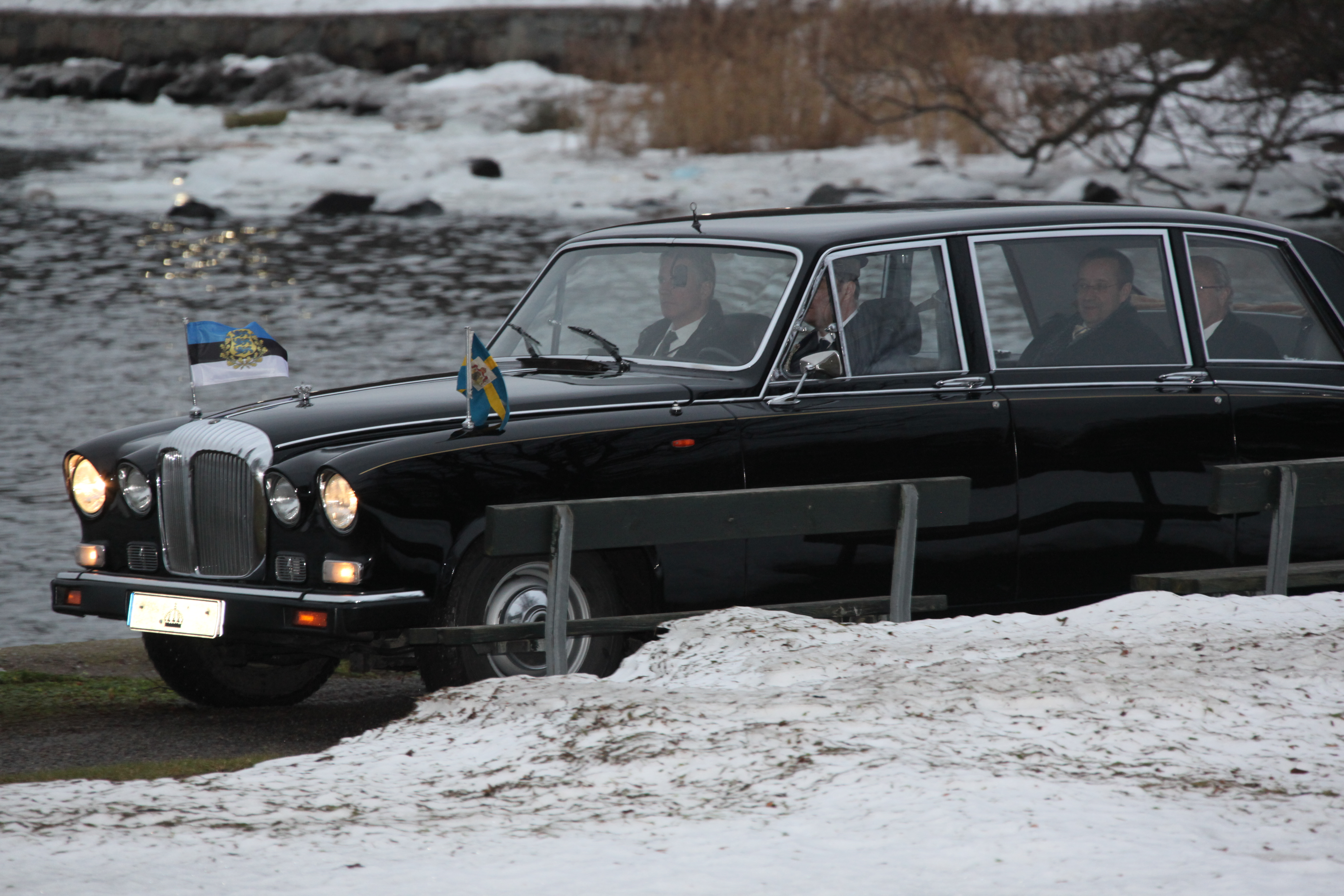 Attending a ceremony at Freedom Gate, to remember that Estonians was welcomed to Sweden during the second world war. Somng by Estonian School. State visit to Stockholm, Sweden, 19-19-20-january-2011